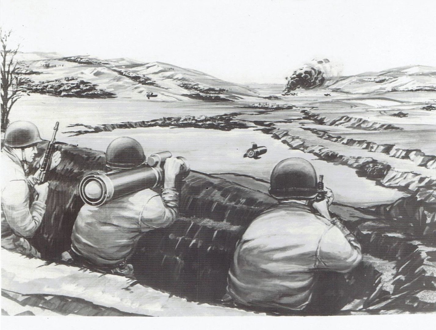 In operation, the gunner sights the target through the MAW’s telescopic sight; the missile follows his line of sight until impact.